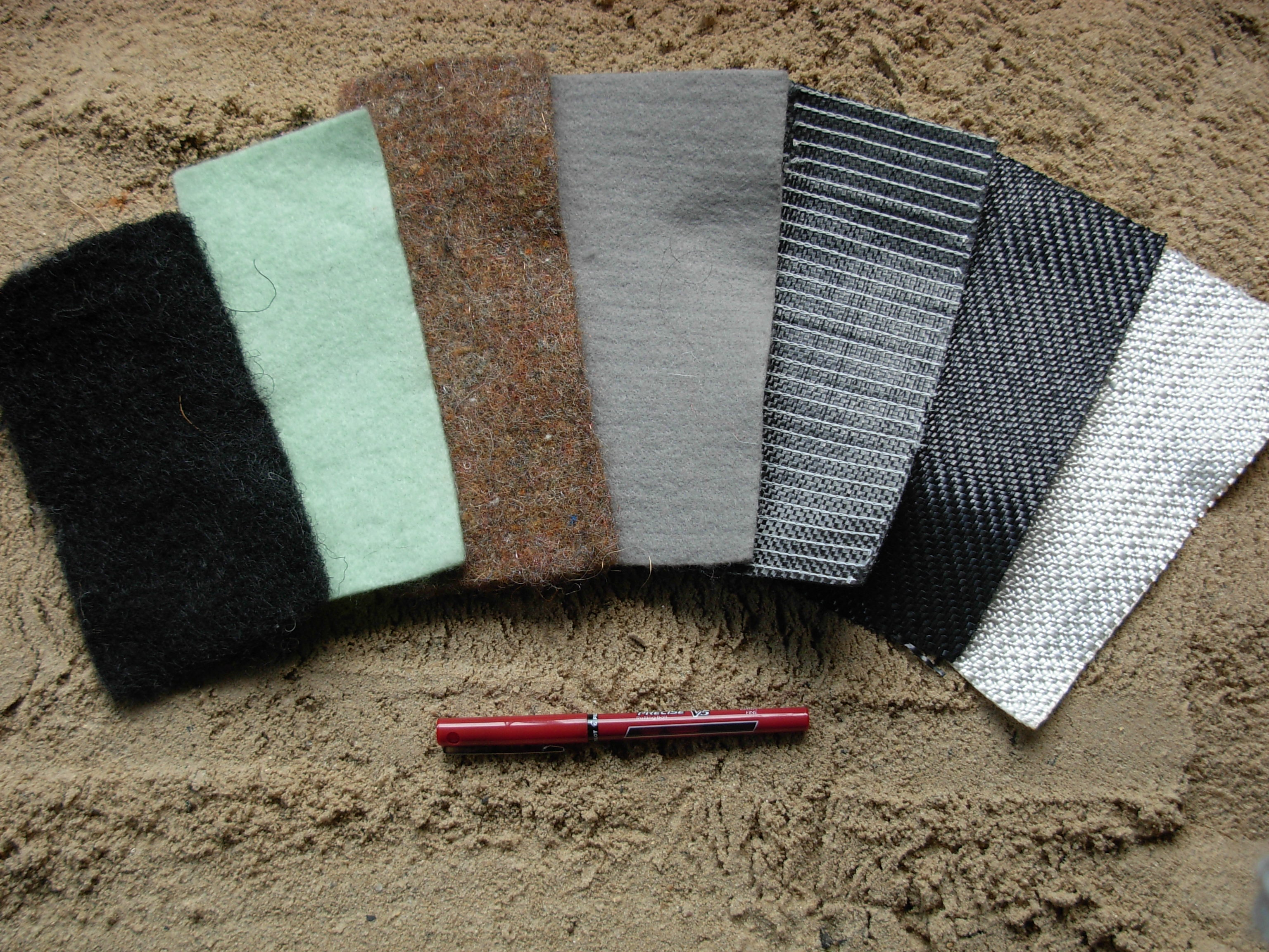 Picturs of geotextiles